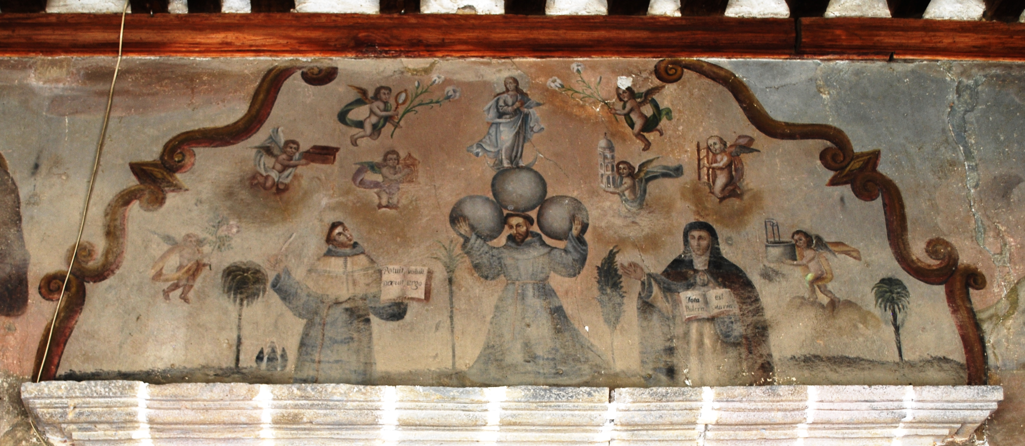 Image of Saint Francis of Assisi holding three globes that support an image of Mary Immaculate as María de Agreda writes the Mystical city of God and Duns Scotus writes a defense of the doctrine of the Immaculate Conception. At the Immaculate Conception Church in Ozumba, Mexico State Painted in 16th century by unknown author